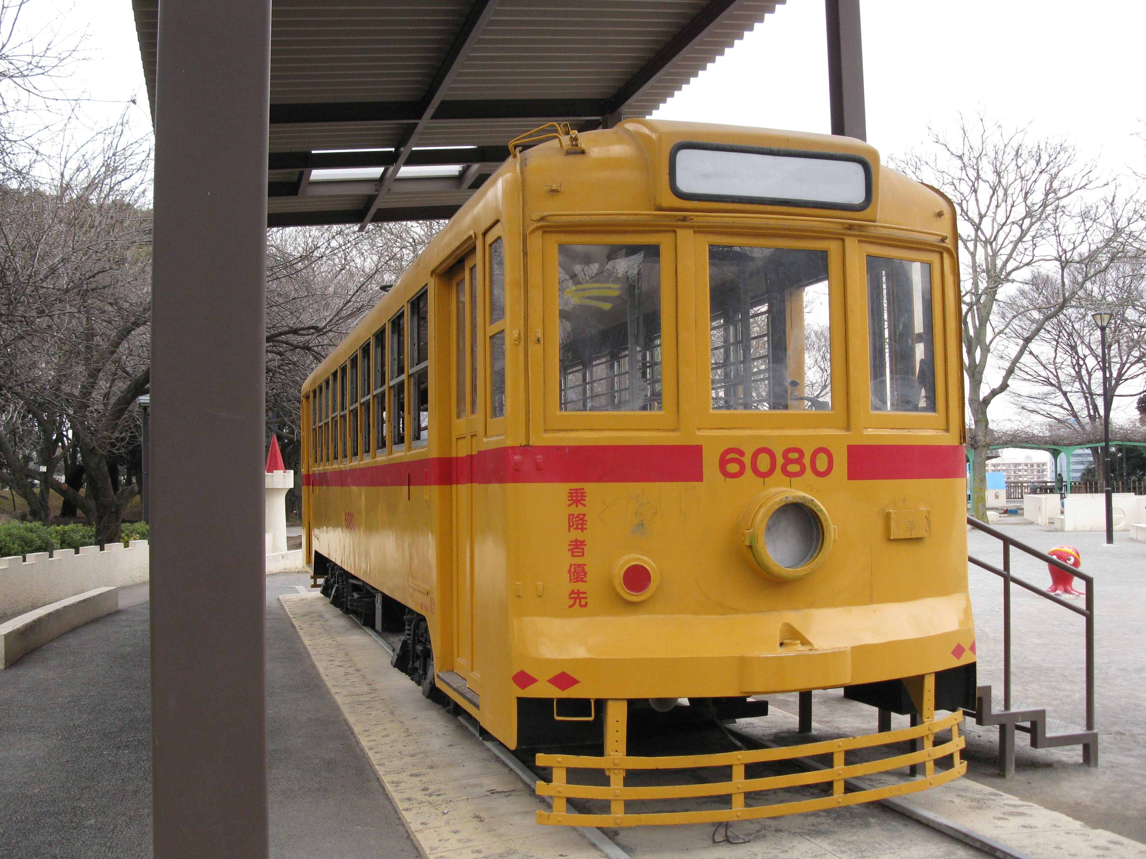 Toden 6080 (Kita ward, Tokyo, Japan)